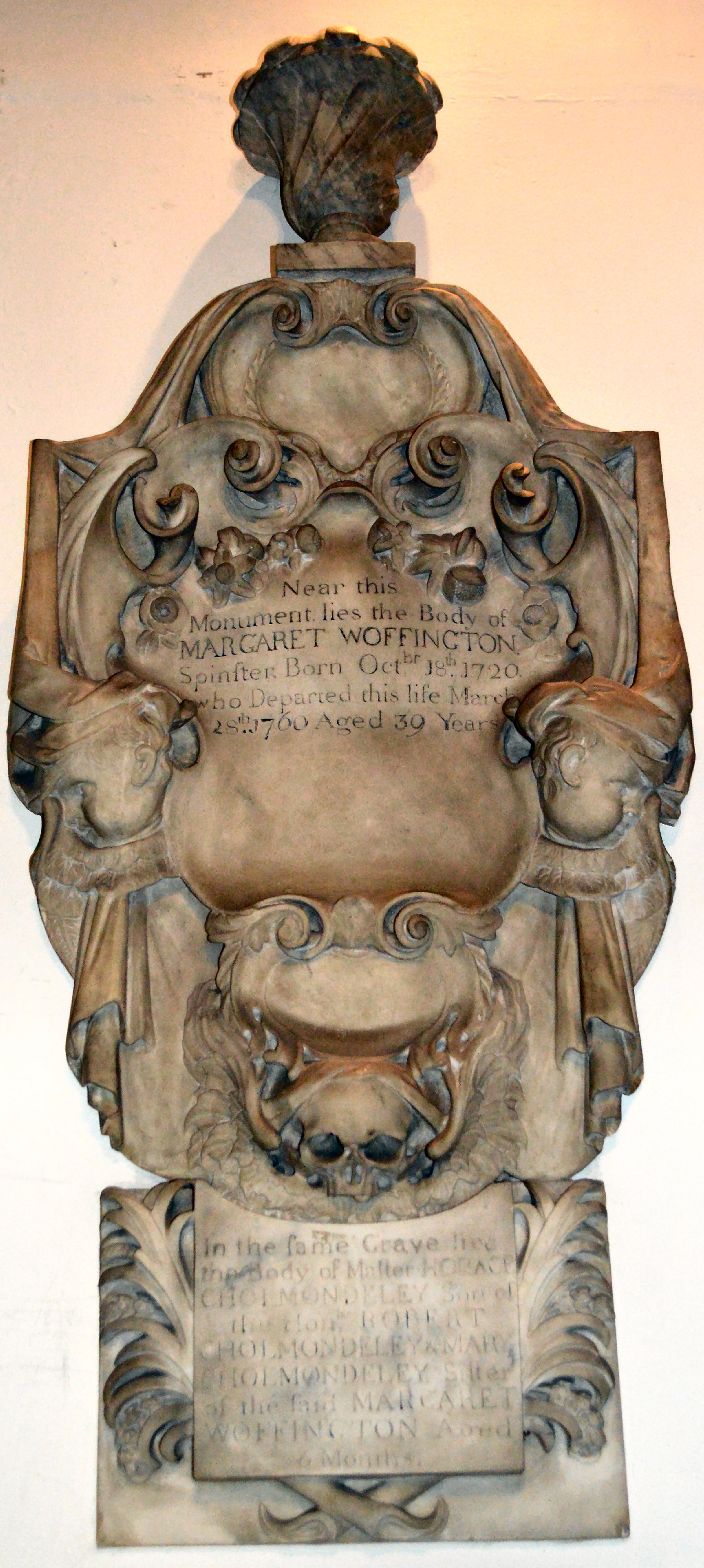 Monument for Margaret "Peg" Woffington, d 1760 at St Mary's church, Teddington. A well-known Irish actress in Georgian London.